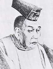 Portrait of Aizawa Seishisai